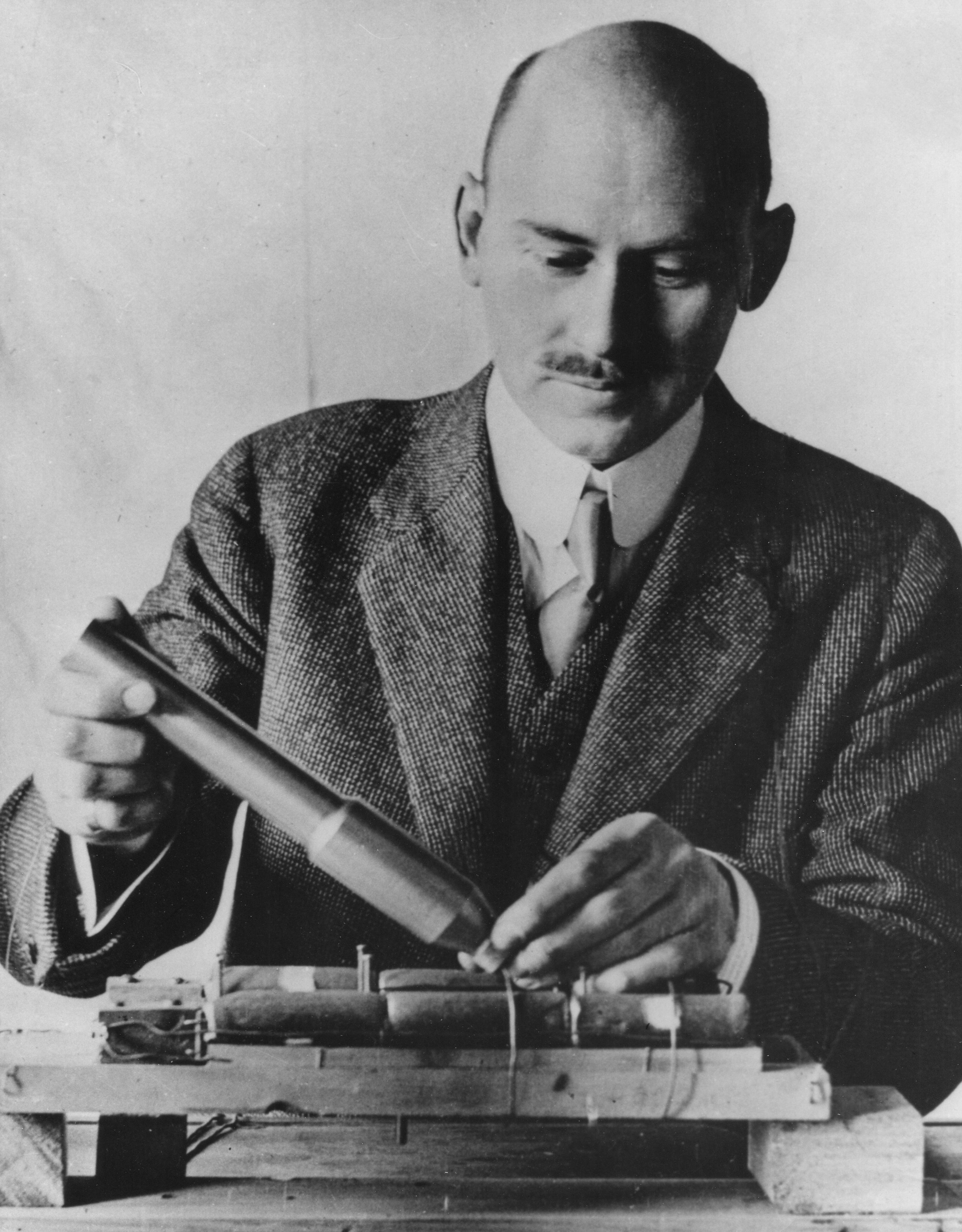 Dr. Robert Hutchings Goddard (1882-1945). Dr. Goddard has been recognized as the father of American rocketry and as one of the pioneers in the theoretical exploration of space. Robert Hutchings Goddard, born in Worcester, Massachusetts, on October 5, 1882, was theoretical scientist as well as a practical engineer. His dream was the conquest of the upper atmosphere and ultimately space through the use of rocket propulsion. Dr. Goddard, died in 1945, but was probably as responsible for the dawning of the Space Age as the Wrights were for the beginning of the Air Age. Yet his work attracted little serious attention during his lifetime. However, when the United States began to prepare for the conquest of space in the 1950's, American rocket scientists began to recognize the debt owed to the New England professor. They discovered that it was virtually impossible to construct a rocket or launch a satellite without acknowledging the work of Dr. Goddard. More than 200 patents, many of which were issued after his death, covered this great legacy.